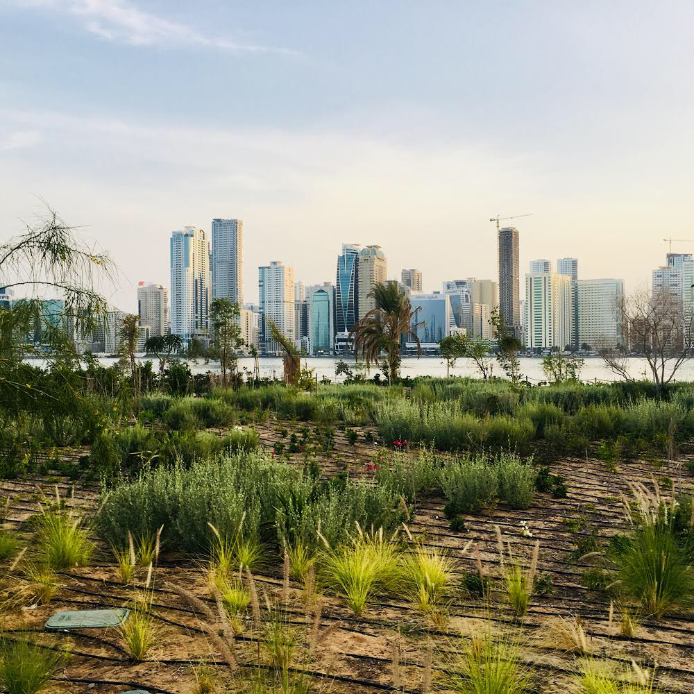 This is a picture of Sharjah corniche taken from Al Noor island.The picture represents the beauty of UAE. This is a monument in the United Arab Emirates identified by the ID AD-0012